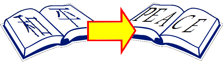 Image suggesting translation from Chinese to English